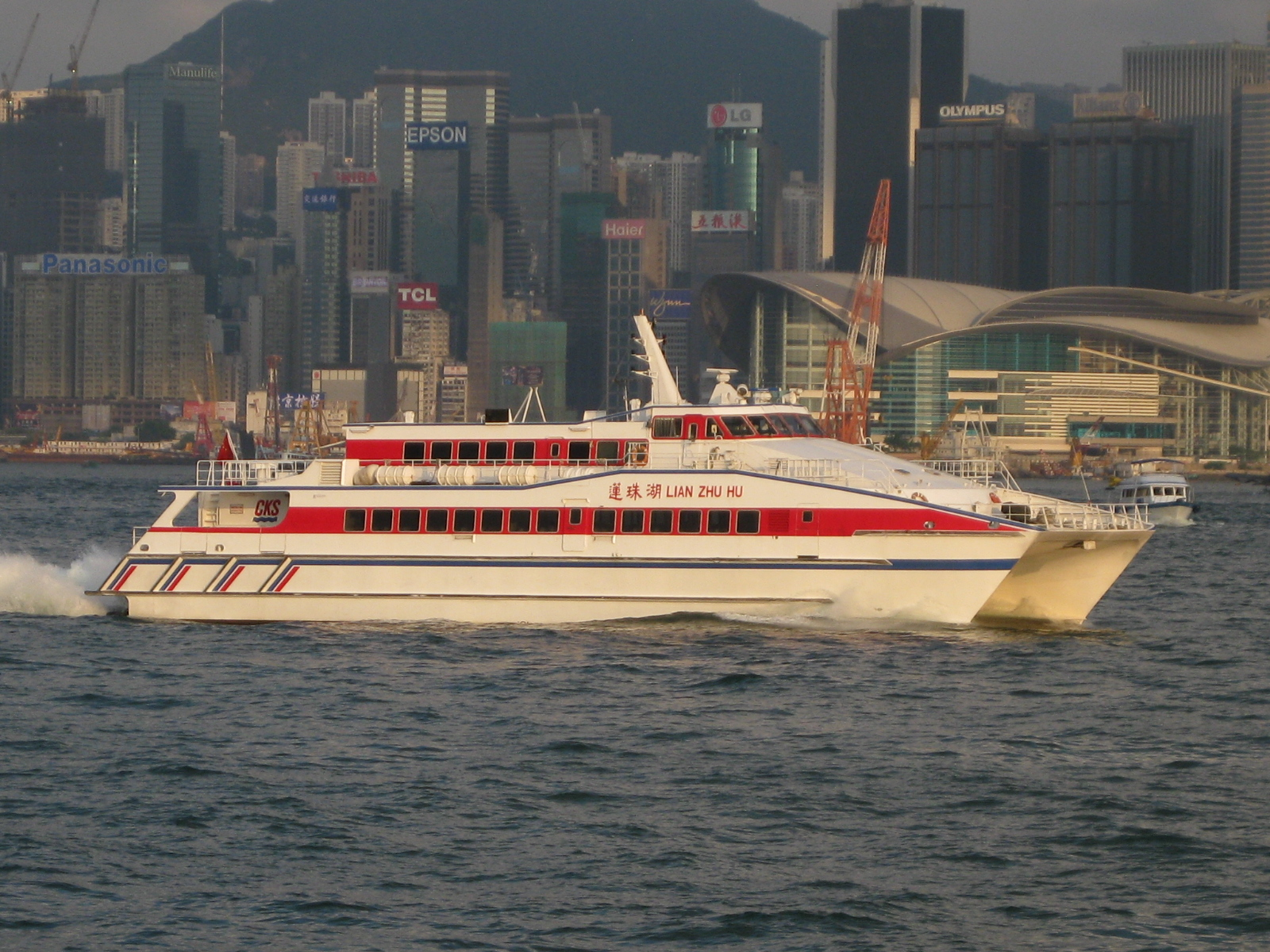 CKS Lian Zhu Hu